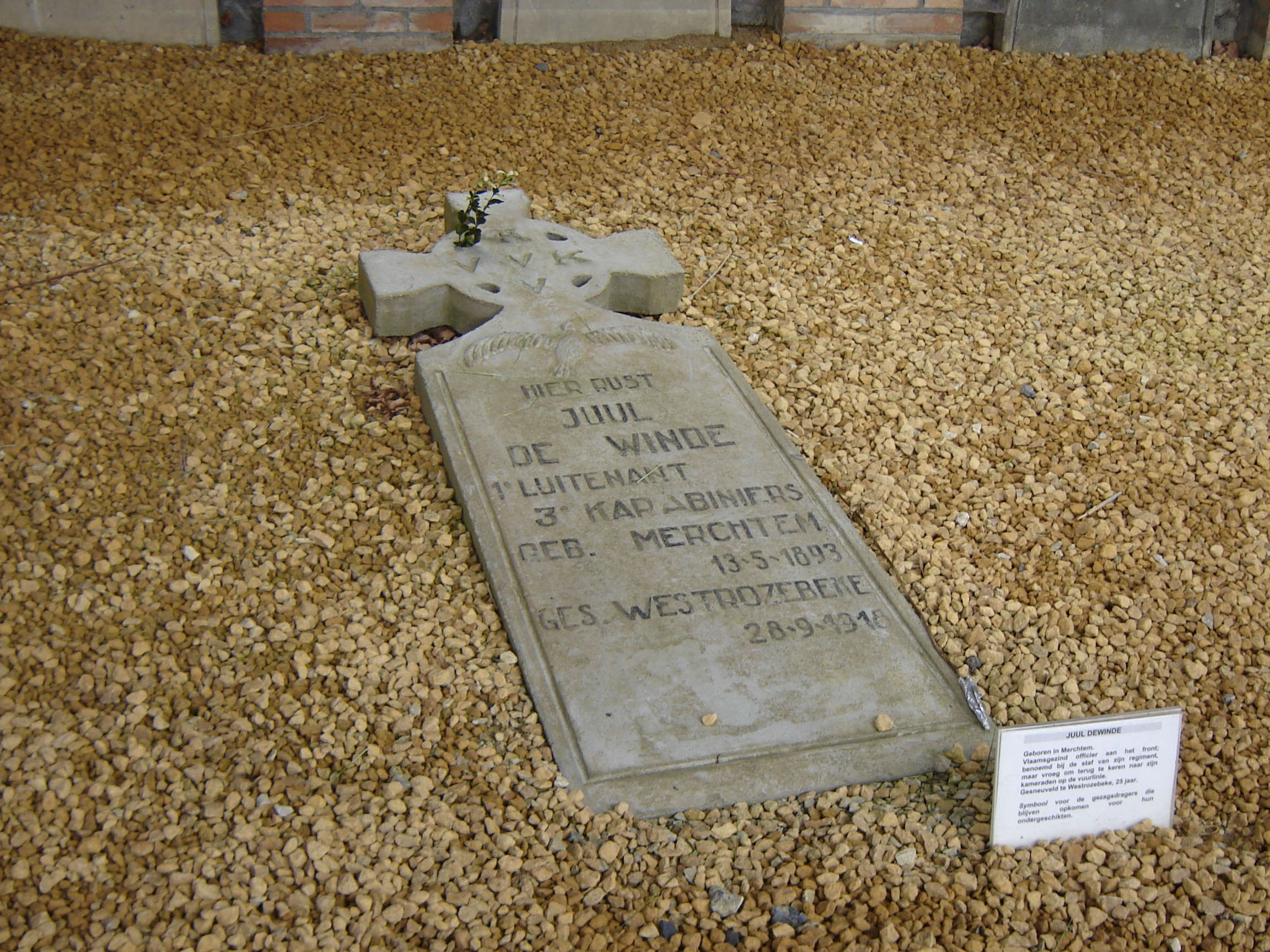 Gravestone of Juul De Winde in the crypt of the IJzertoren in Kaaskerke. Kaaskerke, Diksmuide, West Flanders, Belgium